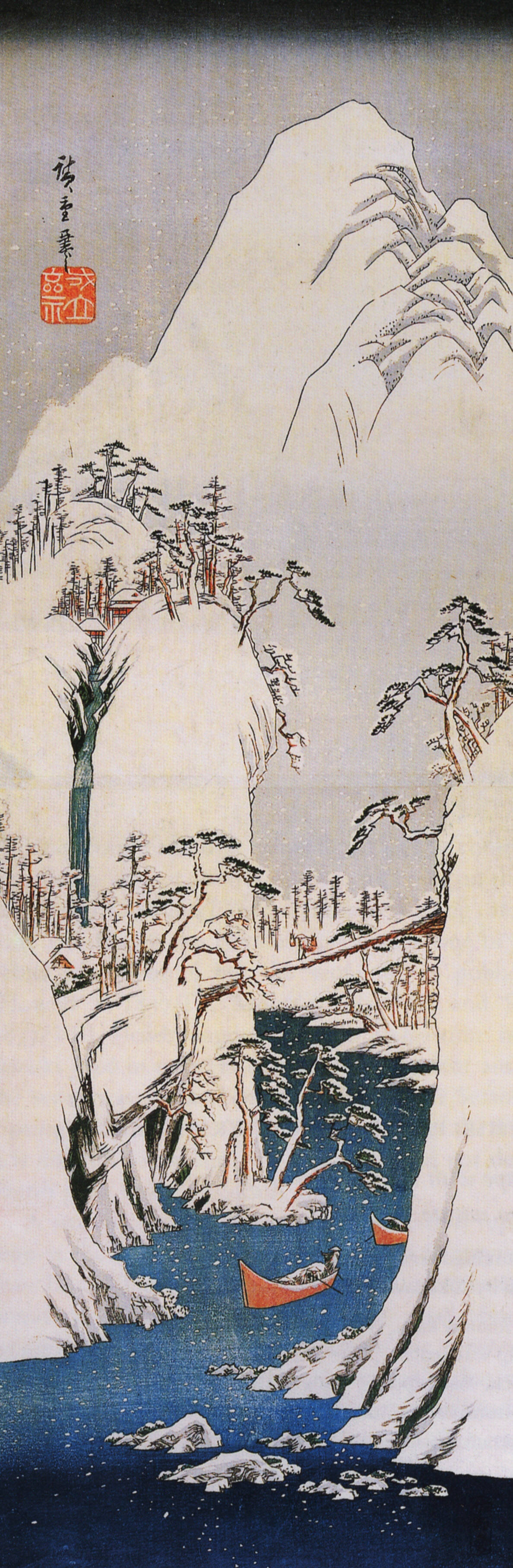 Hiroshige, A snowy gorge